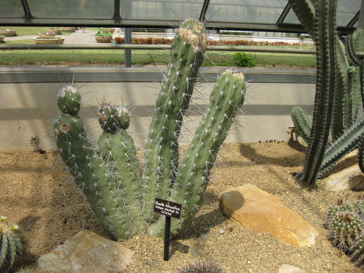 Photographed at the Queen Sirikit Botanic Garden (Chiang Mai Province, Thailand) in March